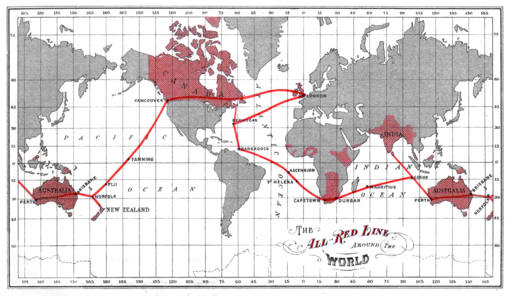 Image of the All Red Line as drawn in 1902 or 1903